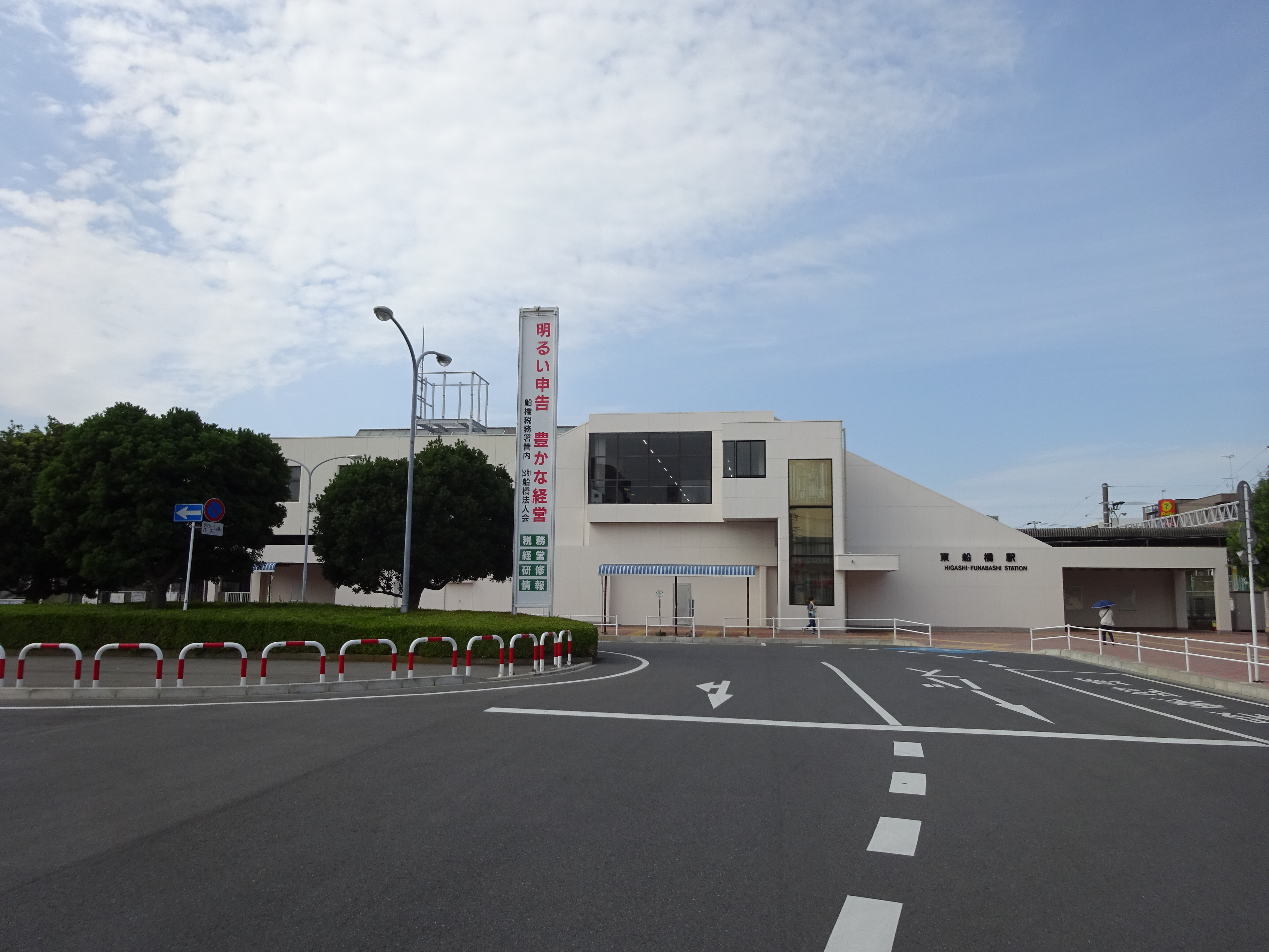 South Entrance of Higashi-Funabashi Station